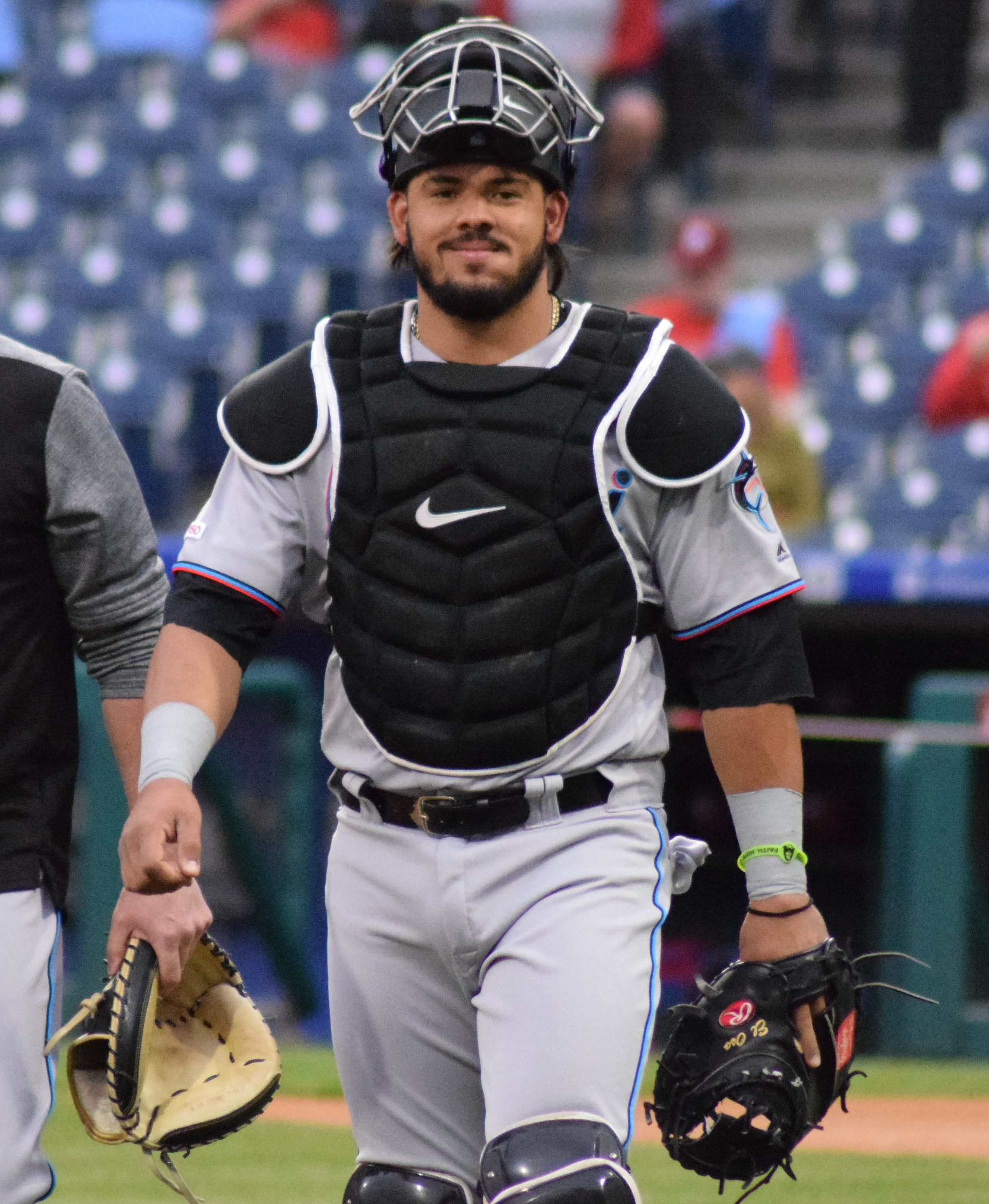 Jorge Alfaro and a Miami Marlins coach at Citizens Bank Park in Philadelphia in April 2019